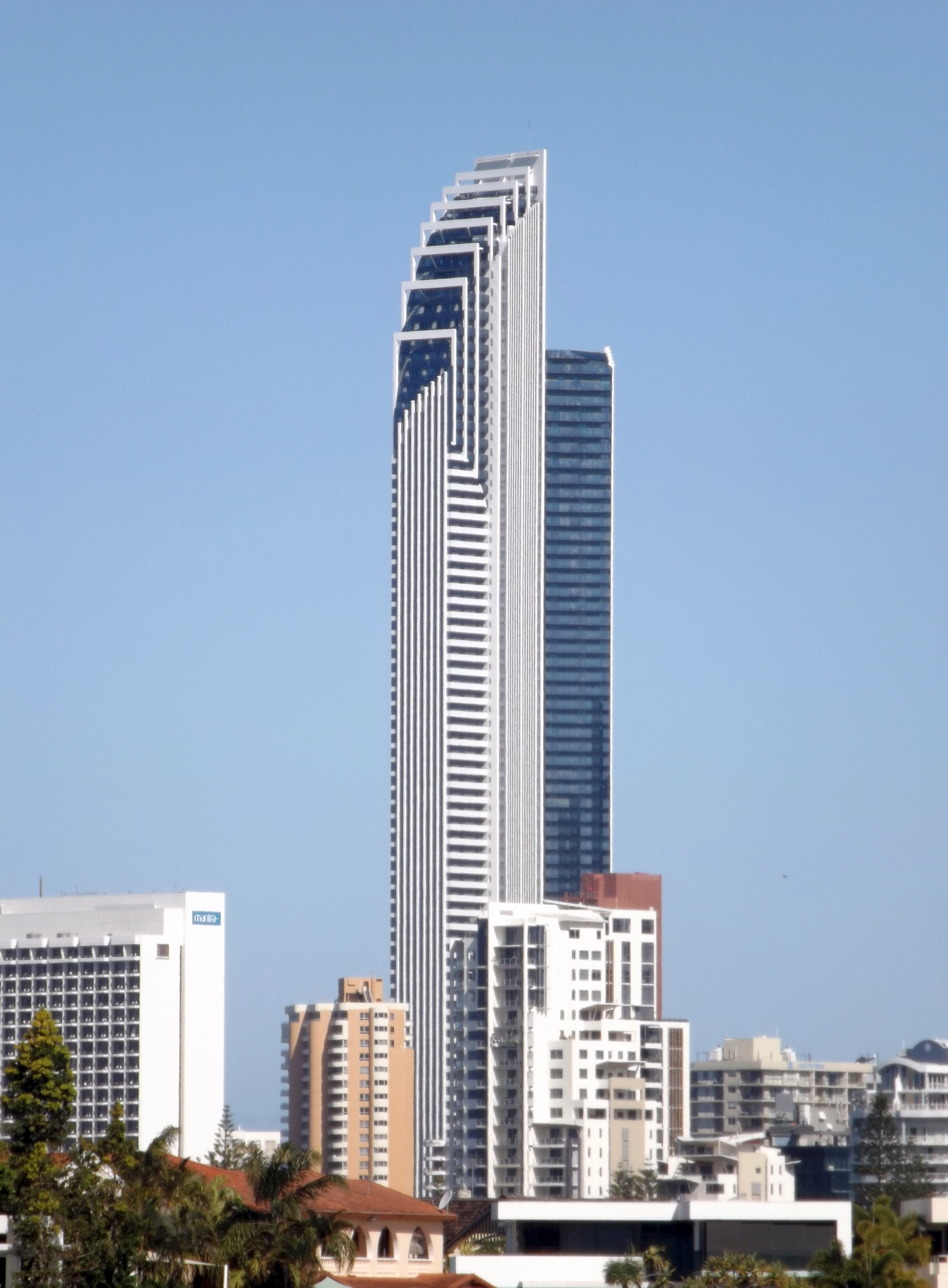 Photo of Soul apartment building from Southport on the Gold Coast, Queensland, Australia.